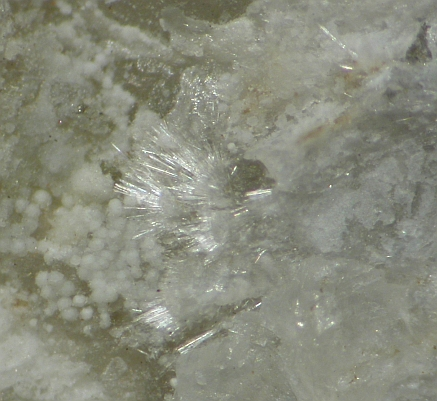 White sprays of Macdonaldite (Field of view 4 mm) Locality: Rush Creek, Rush Creek deposit, Big Creek-Rush Creek District, Fresno County, California, USA (Locality at ) Blue botryoidal crust of McGuinnessite. Field of view 6 mm. Specimen and photo Leon Hupperichs.